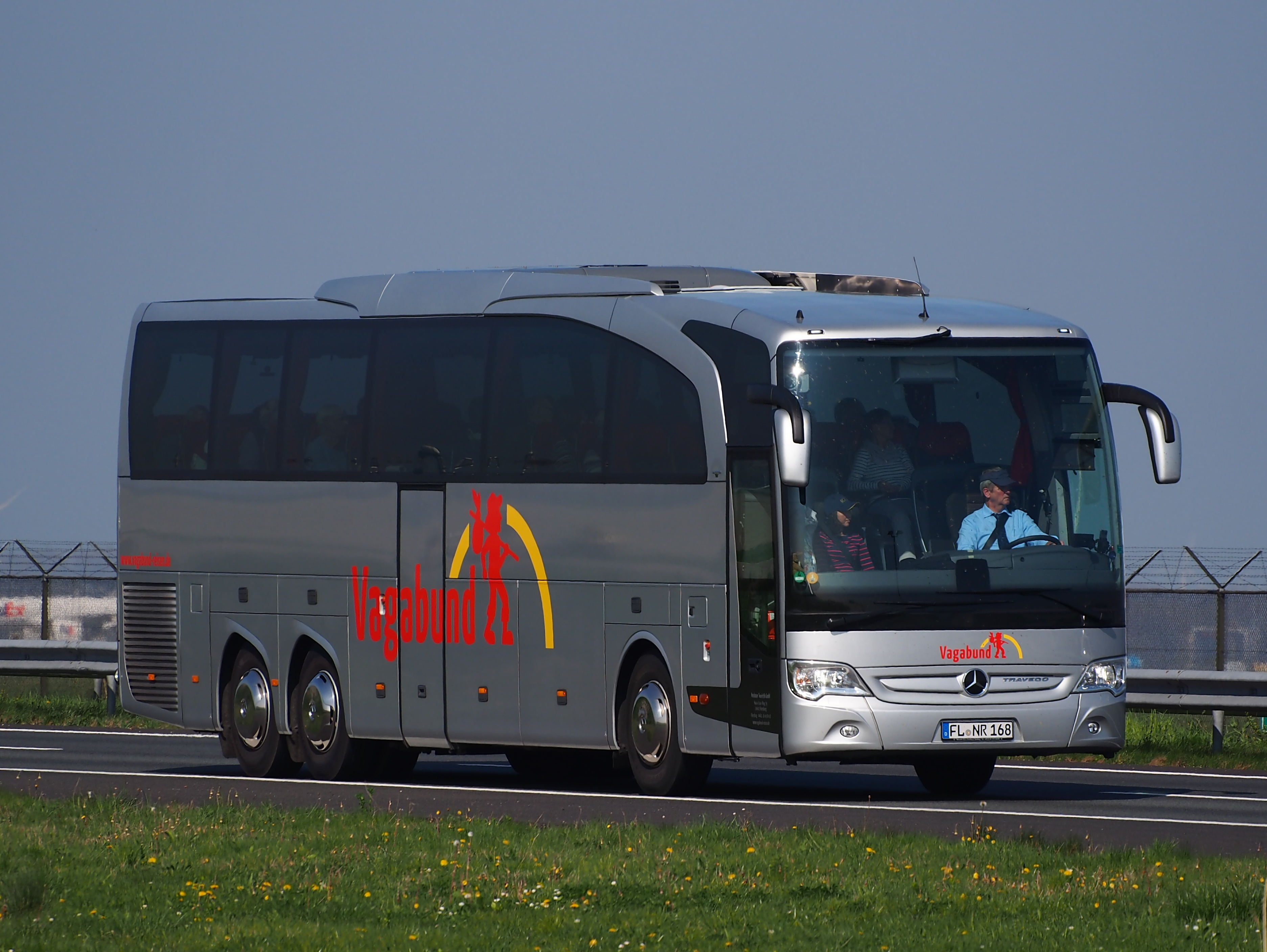 Photographed at the A5.